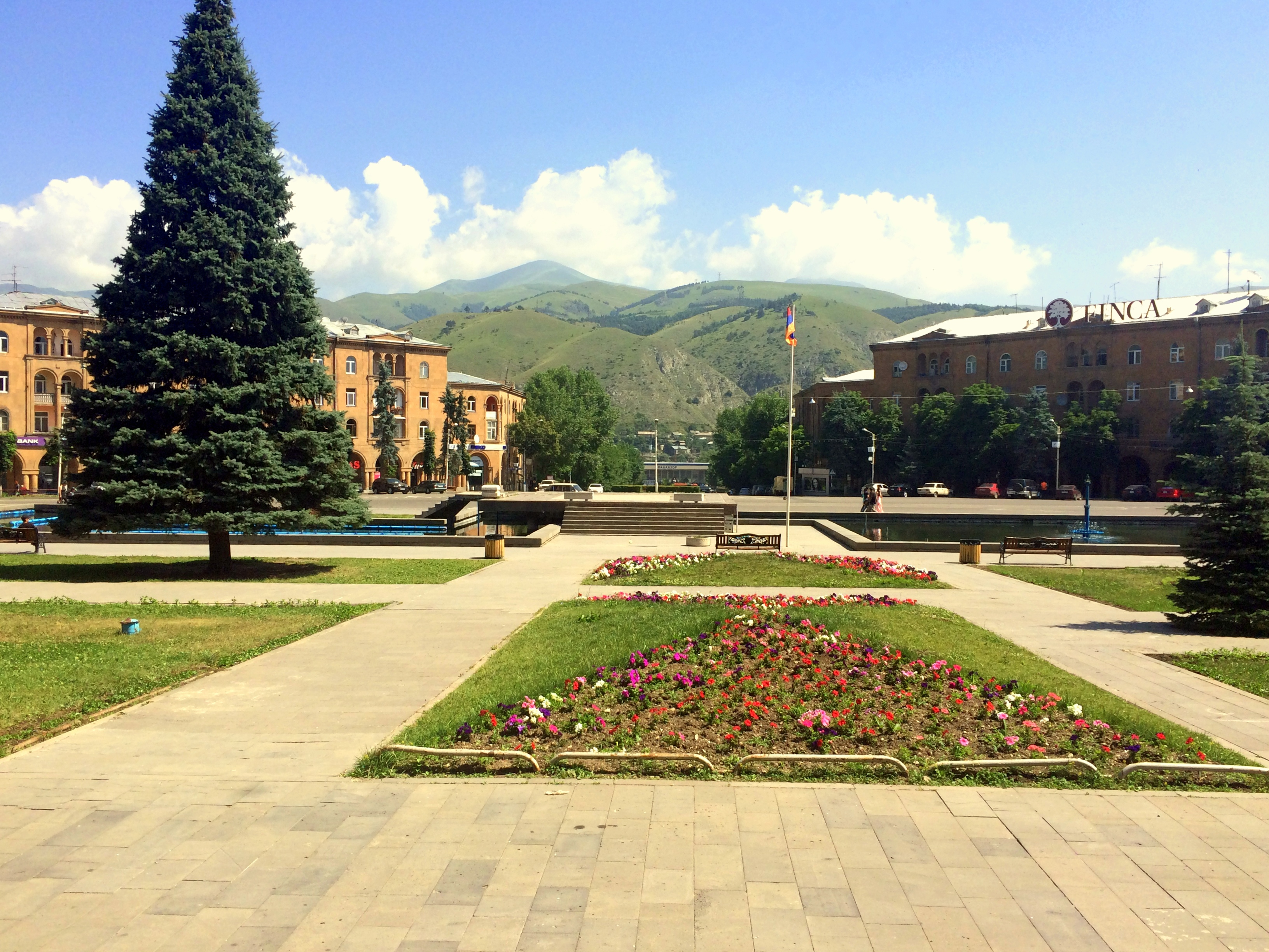 Downtown area of Vanadzor, Lori, Armenia.